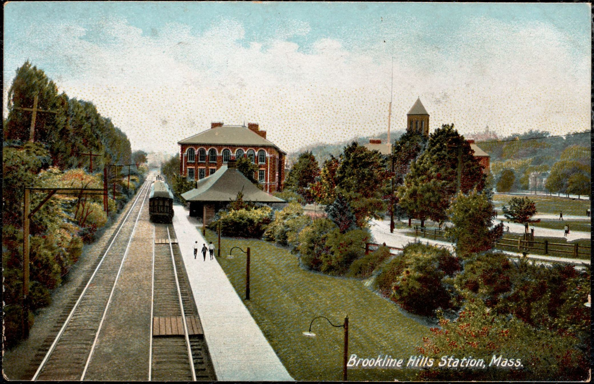 Early postcard of the 1892 Shepley, Rutan and Coolidge station at Brookline Hills. This is a divided-back postcard dating to 1907.